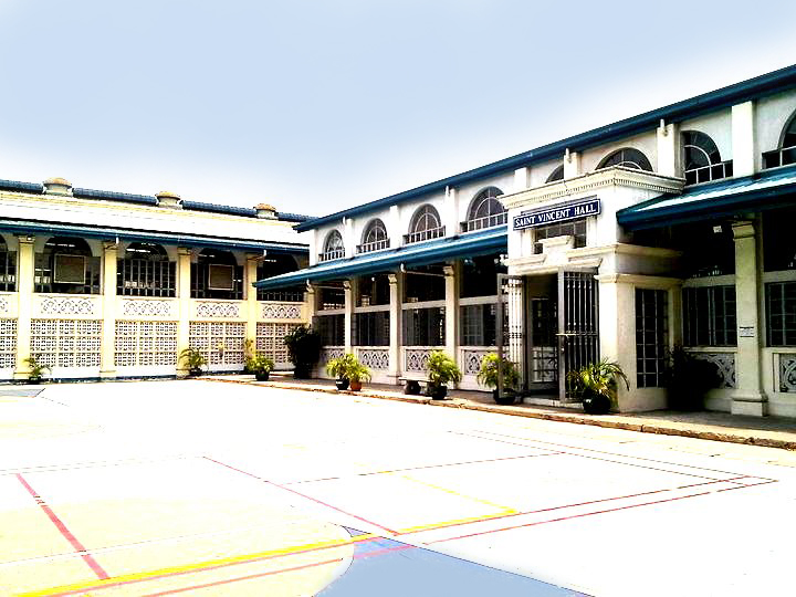 Saint Vincent Hall (beside the St. Vincent Gym)